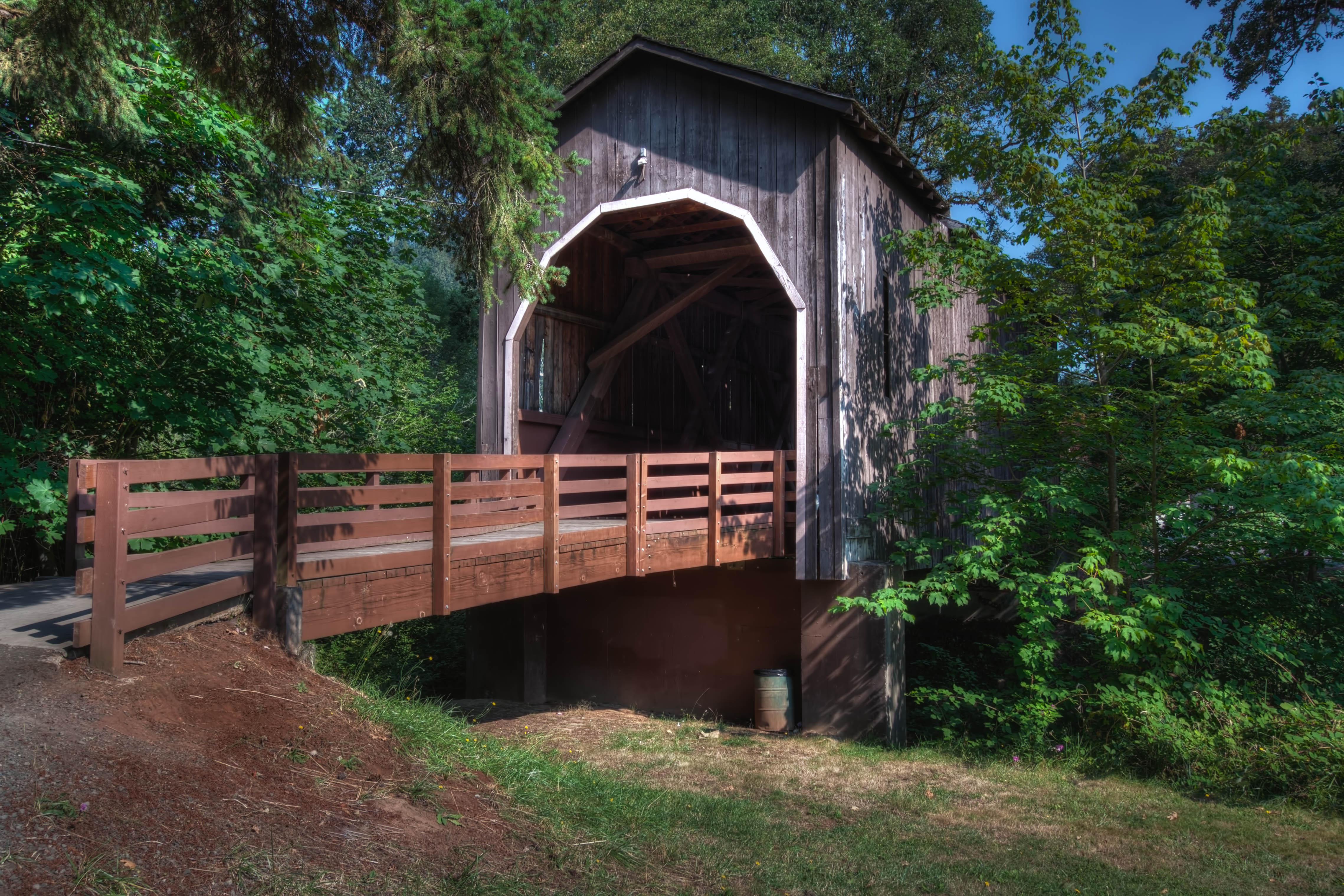 Although the official date of construction of the current Pass Creek Bridge is listed as 1925, members of the Umpqua Historic Preservation Society attest the span was constructed in 1906. Mamie Krewson Matoon, who was born in 1894, remembered a covered bridge over Pass Creek as a child. "It was an old bridge at the time. Long before Drain had lights, we packed a lantern on dark nights when going through it in a hack drawn by two horses." The original bridge at this site was built in the 1870s along the Overland Stage Route, as Drain was an important junction which linked the Willamette Valley and Jacksonville. An 1895-era photograph shows the wagon bridge and adjacent railroad bridge, both being covered. The wooden rail span was replaced soon after. Old timers recall the Pass Creek Bridge provided excitement when a horse-drawn wagon crashed through the floor around 1920 while hauling supplies for a Thanksgiving turkey shoot. Although the wagon dropped below the decking, the only casualties were the words uttered by the driver, the drowning of turkeys and splashing of supplies into the creek. It is probable the covered wagon bridge at this location was either rebuilt or replaced in 1925, displacing the earlier span. Holes in the lower chords indicate that it may have been salvaged from another bridge. Today a concrete bridge now crosses Pass Creek where the old wooden structure once rested. In the fall of 1987, after the roof and siding of the covered bridge were removed, a 90-ton crane lifted the trusses and moved them one block away where the structure was reassembled the following year. The wooden bridge had been closed to traffic since 1981, causing the handful of local residents surrounding the span to maneuver under a cramped railroad trestle to get to their homes.